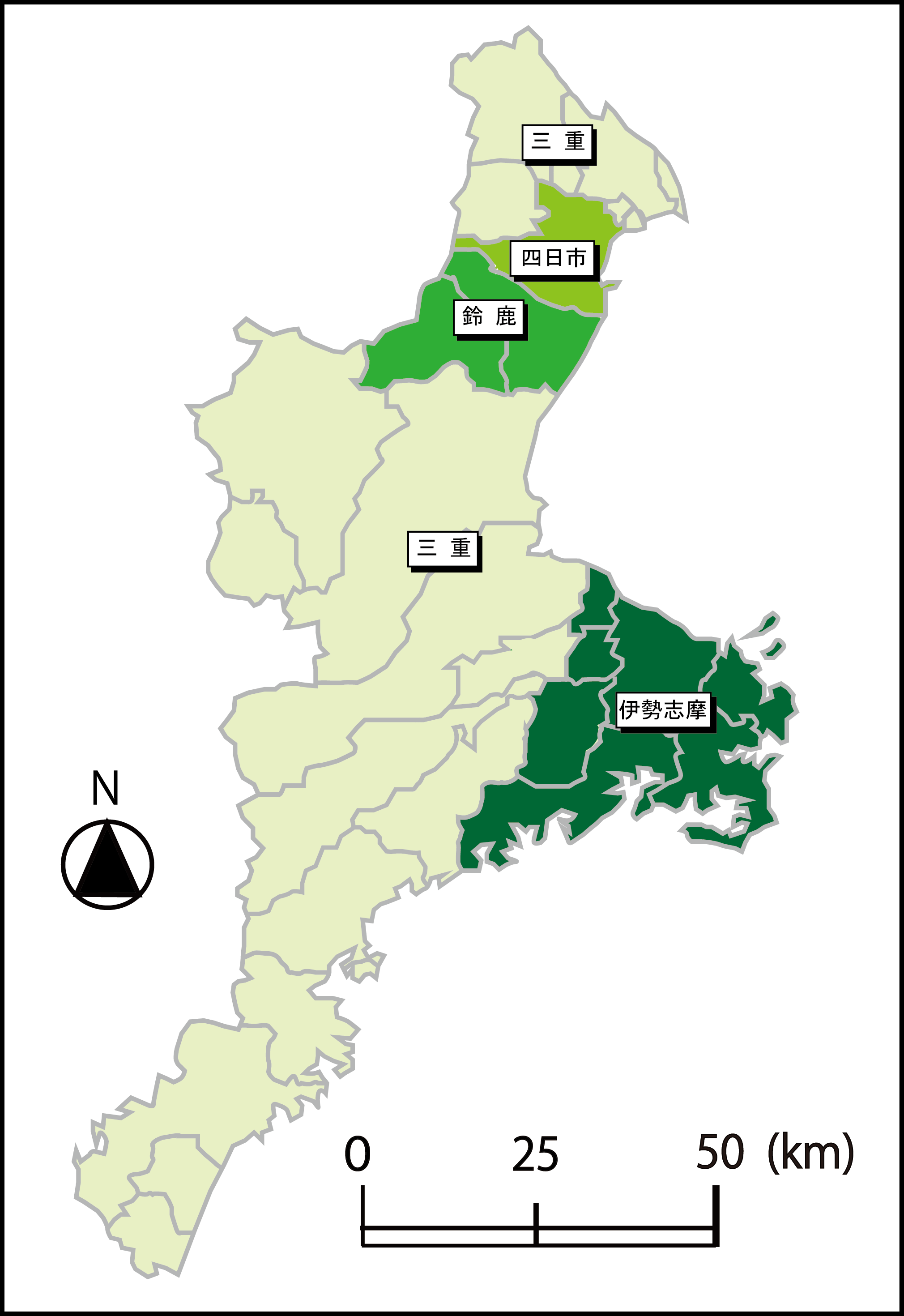 This map shows the area of icense plates since 2020 in Mie, Japan.